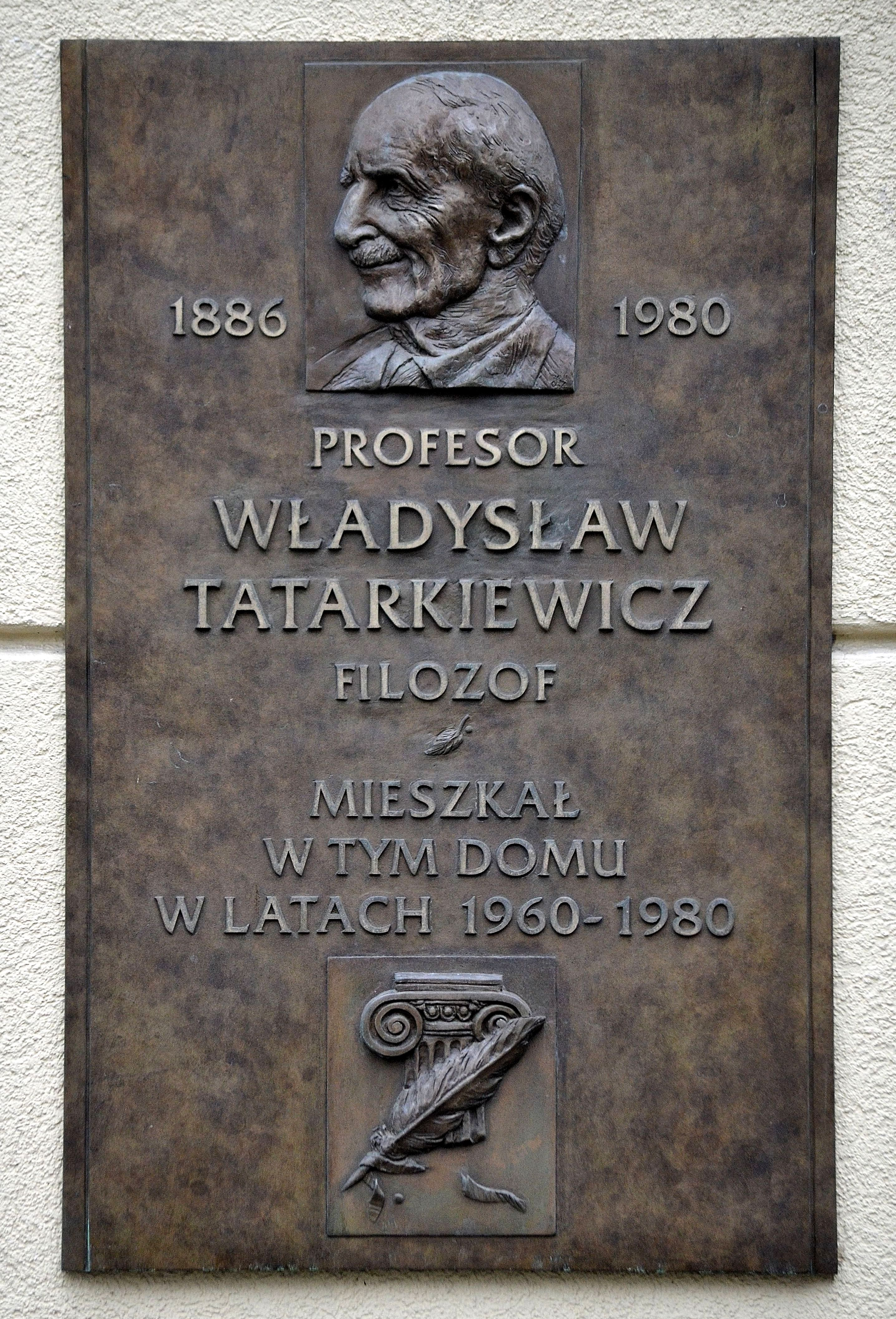 Plaque in memory of Wiładysław Tatarkiewicz at 35 Chocimska Street in Warsaw